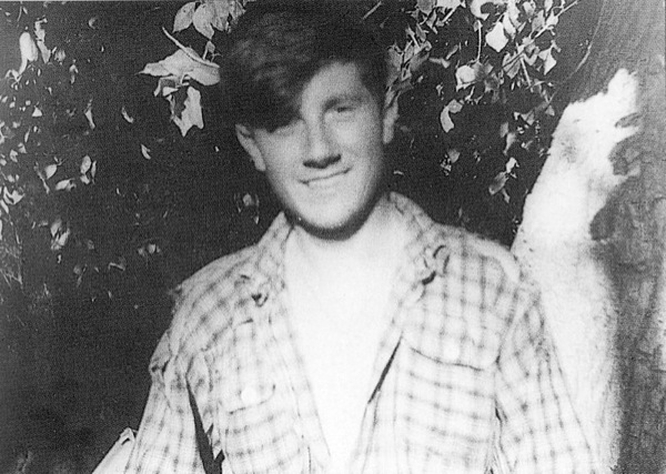 Walter Bonatti in Askole (Pakistan) during the trekking to the K2 base camp